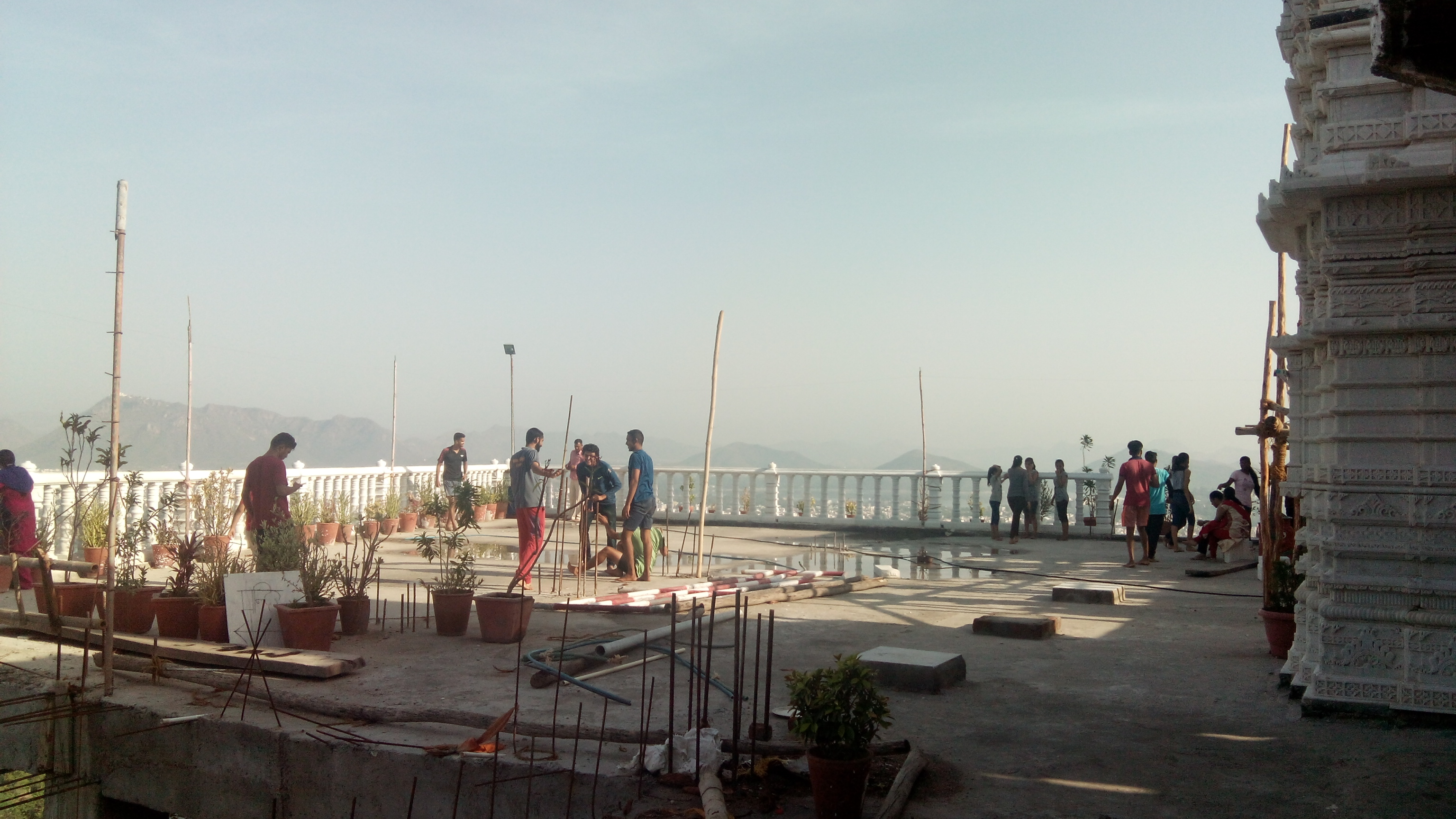 A picture showing the side-roof area besides the Karni Mata Temple, showing people standing around the temple area.